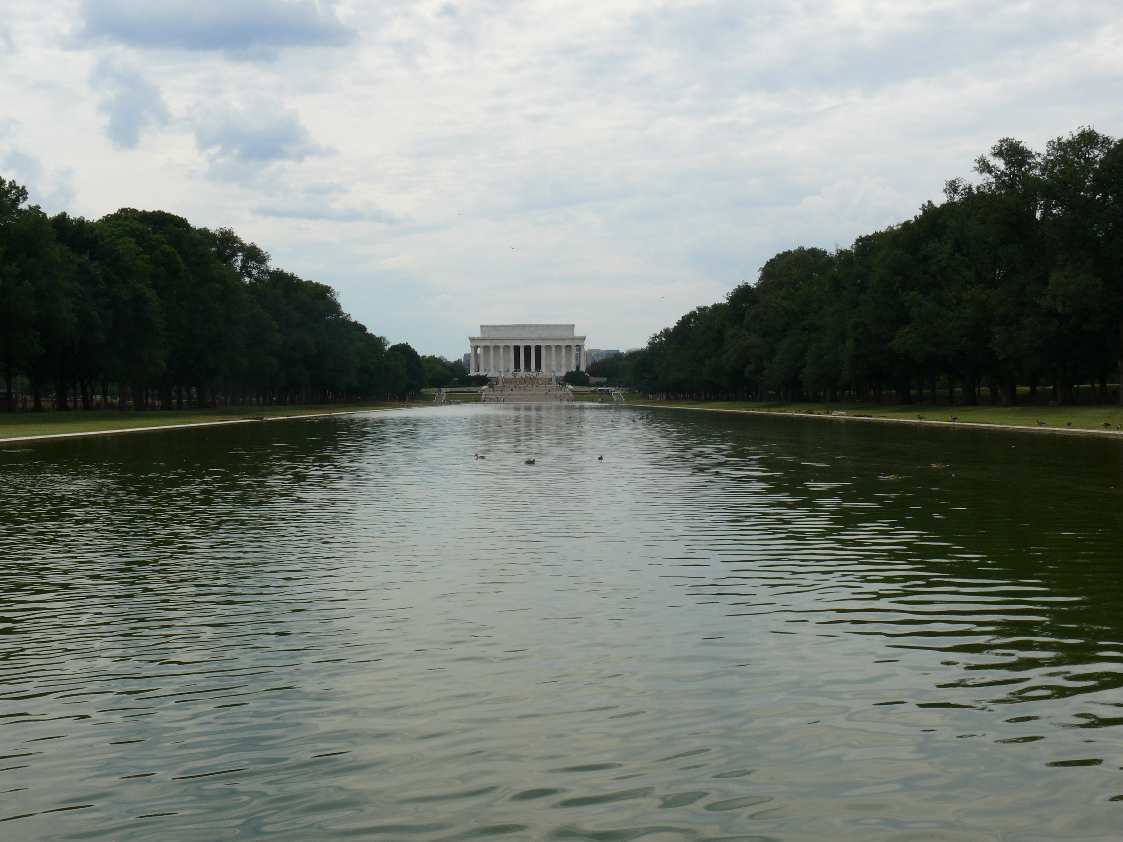 Lincoln Memorial and reflecting pool. The Lincoln Memorial is a United States Presidential memorial built to honor the 16th President of the United States, Abraham Lincoln. It is located on the National Mall in Washington, D.C. The Lincoln Memorial Reflecting Pool is the largest of Washington, D.C.'s reflecting pools. Located directly east of the Lincoln Memorial, it is a long, rectangular pool visible in many photographs of the Washington Monument. It is lined by walking paths and shade trees on both sides. It reflects both the Washington Monument and the Lincoln Memorial.